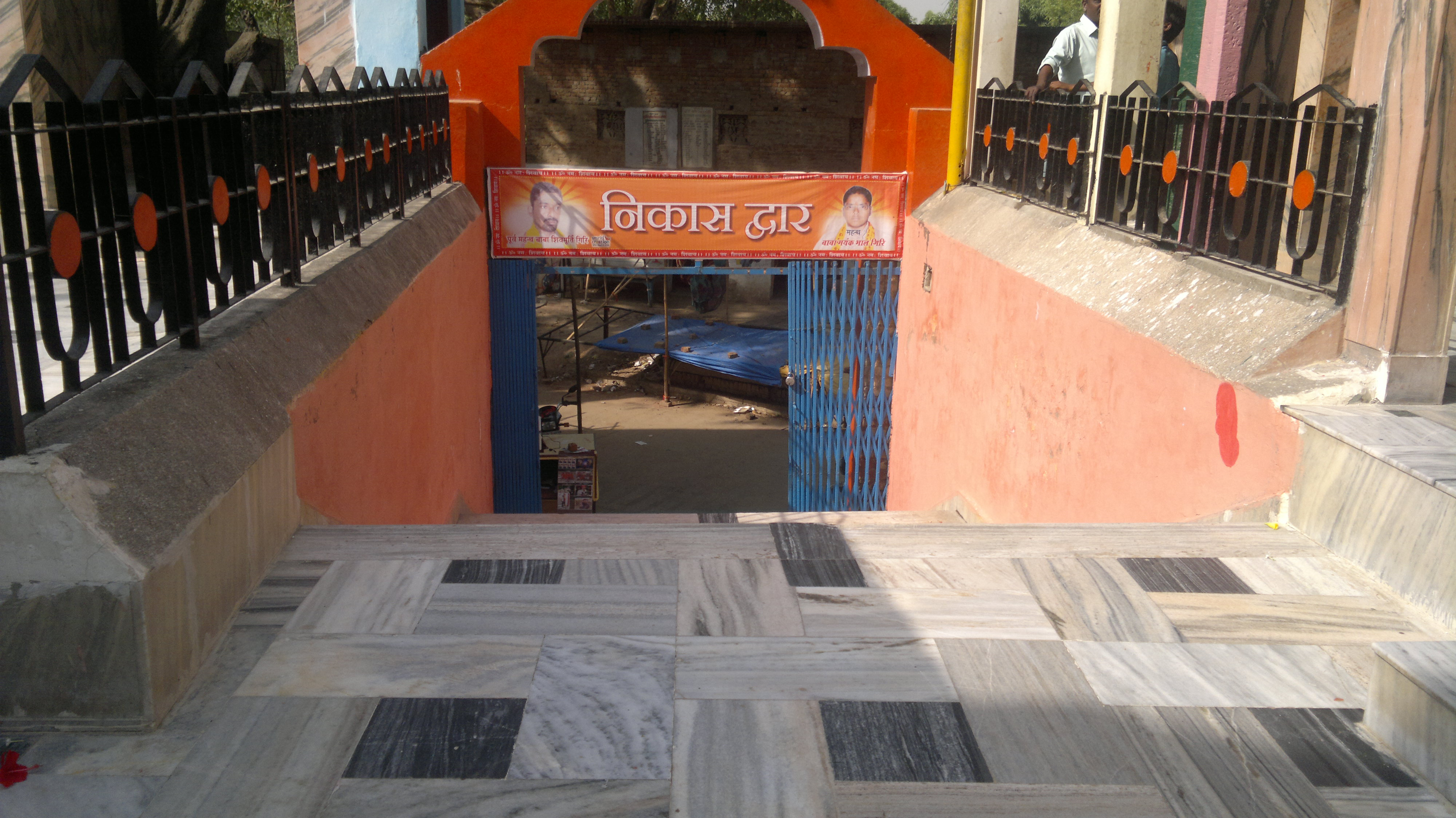 Ghuisarnath Dham (Ghushmeshwarnath Dham), Lalganj ,Pratapgarh, Uttar Pradesh